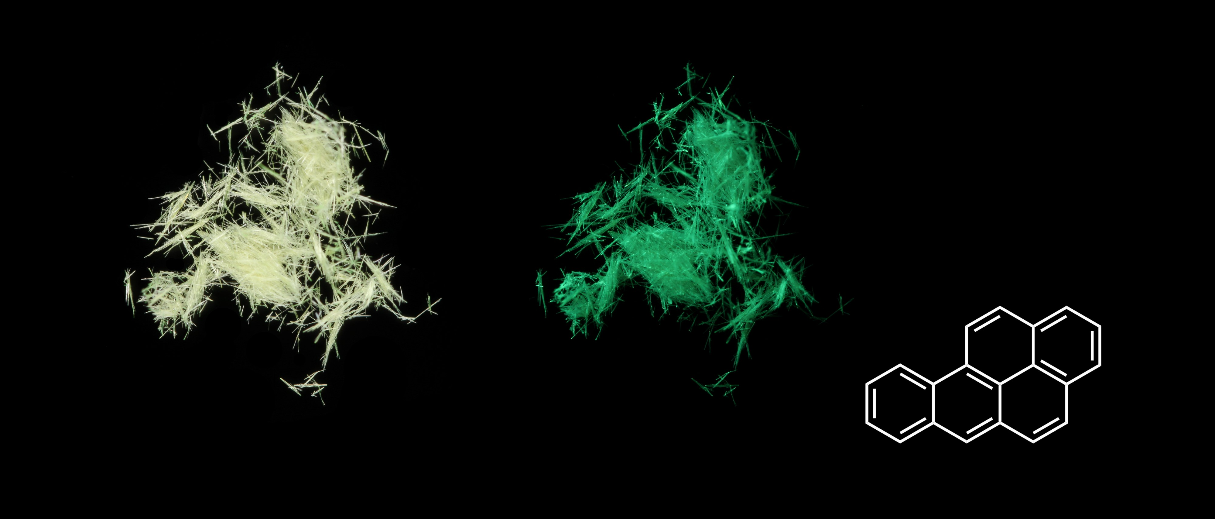 Needles of pure benzo[a]pyrene under normal and UV light (366 nm).